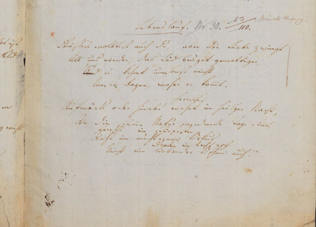 Manuscript of Hölderlin's poem Lebenslauf, page 1